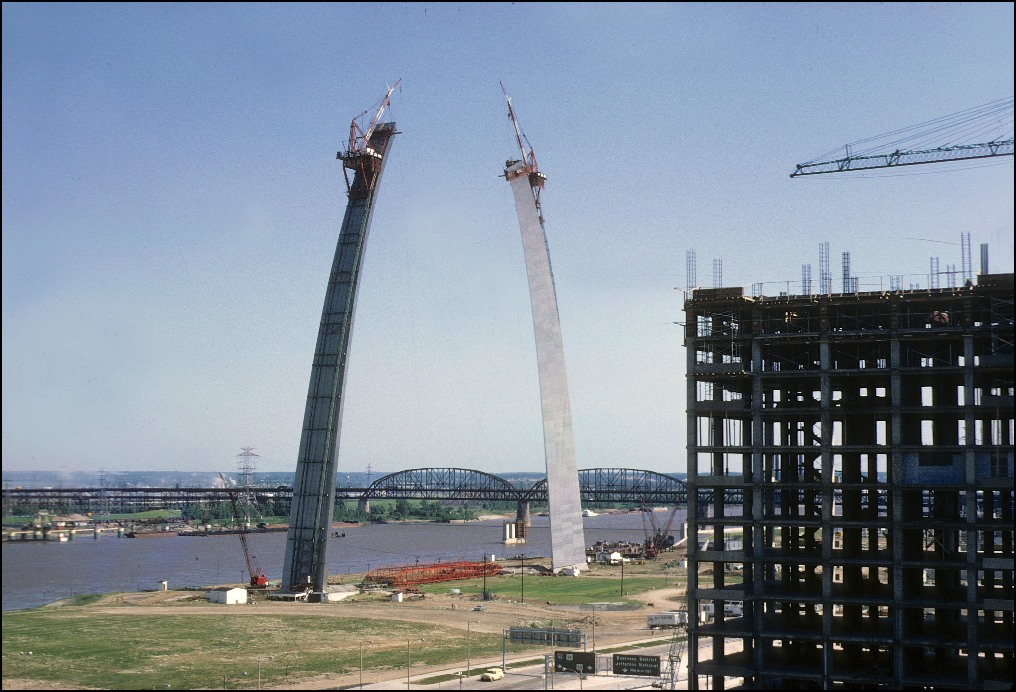 The Gateway Arch in St. Louis, MO, under construction in June 1965, before the truss used to support the legs of the arch is lifted into place. The truss can be seen on the ground underneath the arch. MacArthur Bridge is visible in the background.